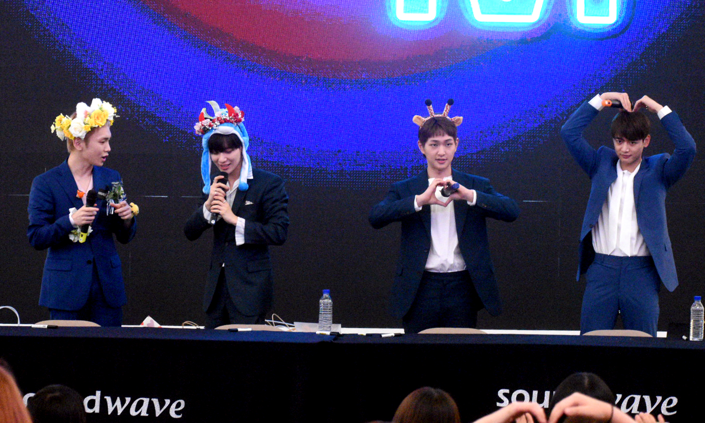 SHINee fansign event at Starfield in Goyang on June 29, 2018.